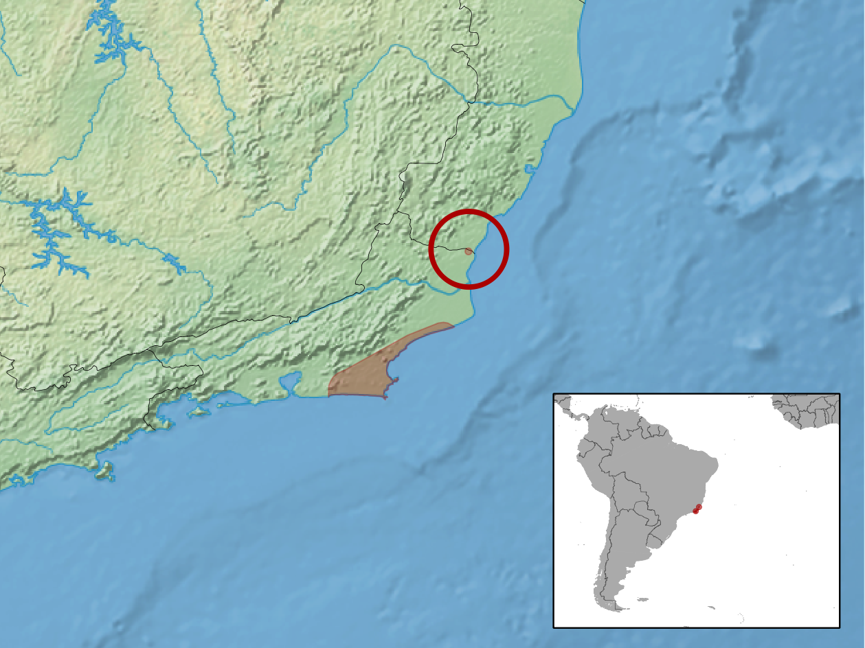 geographic distribution of Trinomys eliasi